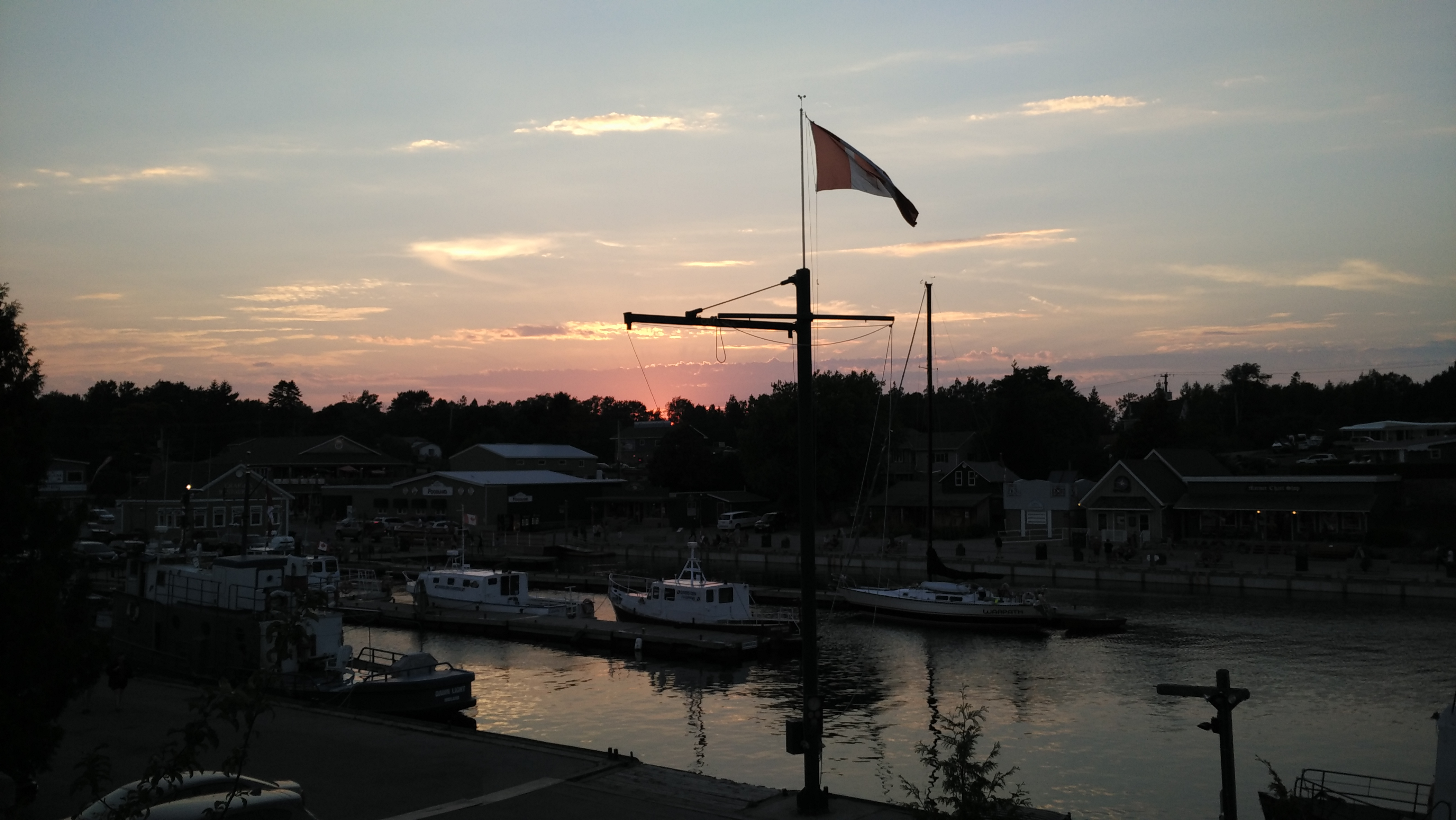 the town of Tobermory in sunset